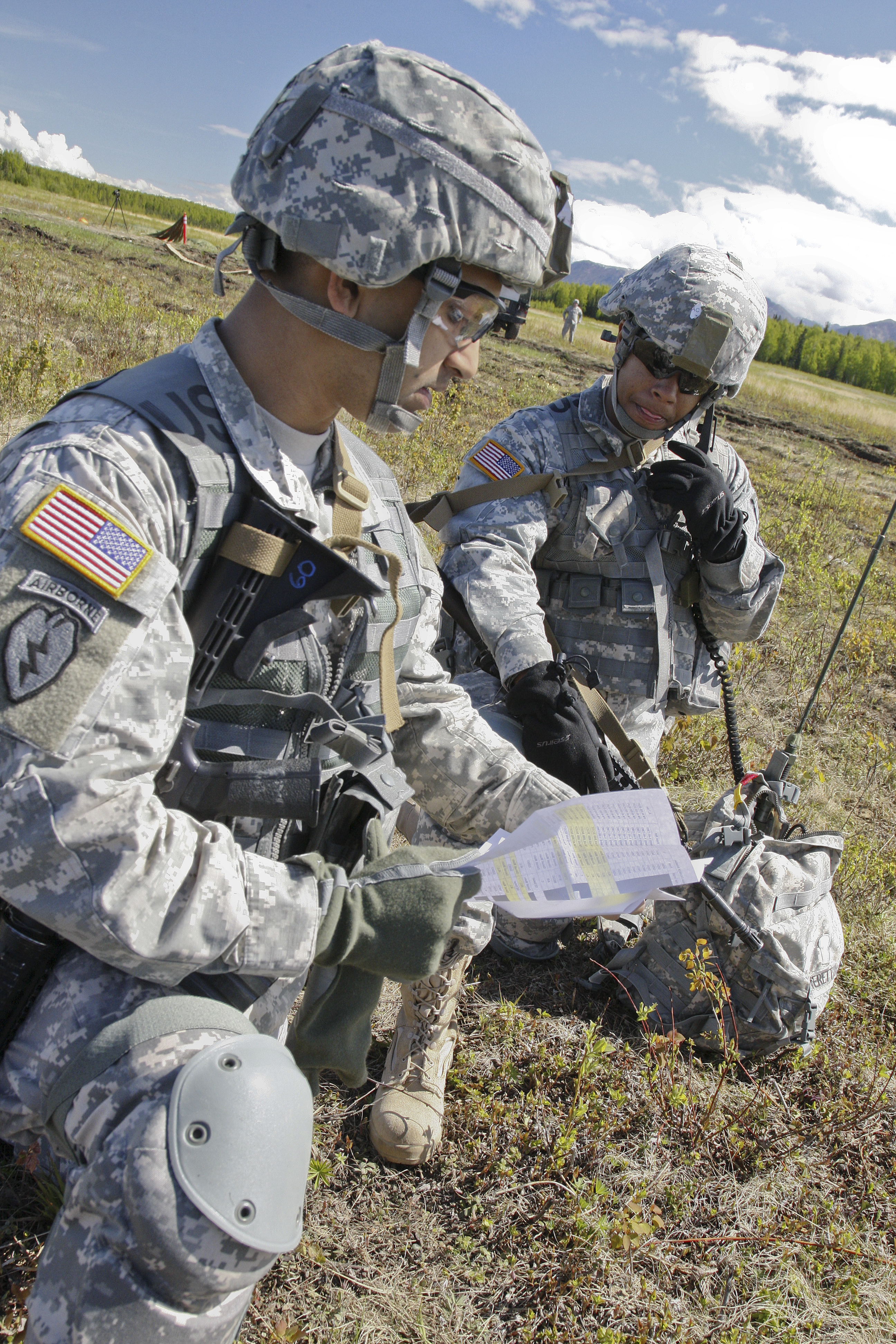 Army 1st Lt. Arafat Shawon (left), Headquarters and Headquarters Battery, 2nd Battalion, 377th Parachute Field Artillery Regiment, relays fire mission information to radio telephone operator, Spc. Terrell Avery, as the 4th Brigade Combat Team (Airborne), 25th Infantry Division, conducts airborne operations on Malamute Drop Zone, June 5, 2013. With C-17 Globemaster aircraft delivering more than 400 soldiers, M119A2 105 mm howitzers, and container delivery systems, Operation Spartan Reach, a three-day mass exercise simulating rapid deployment into a hostile area, is the largest of its kind since the unit's activation in 2005. Unit: Joint Base Elmendorf-Richardson Public Affairs DVIDS Tags: 81mm mortar; howitzer; paratroopers; heavy drop; Airborne; C-130 Hercules; 2-377th PFAR; Malamute Drop Zone; 3-509th Inf Regt